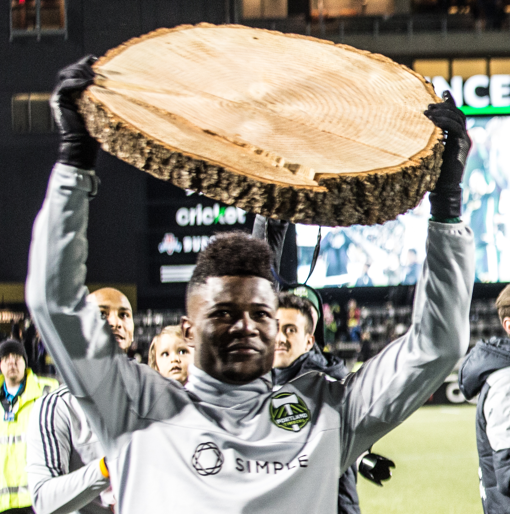 Timbers players Dairon Asprilla, Norberto Paparatto and Liam Ridgewell hold up log slices after Portland outscored FC Dallas 3-1 on November 2, 2015 at Providence Park.